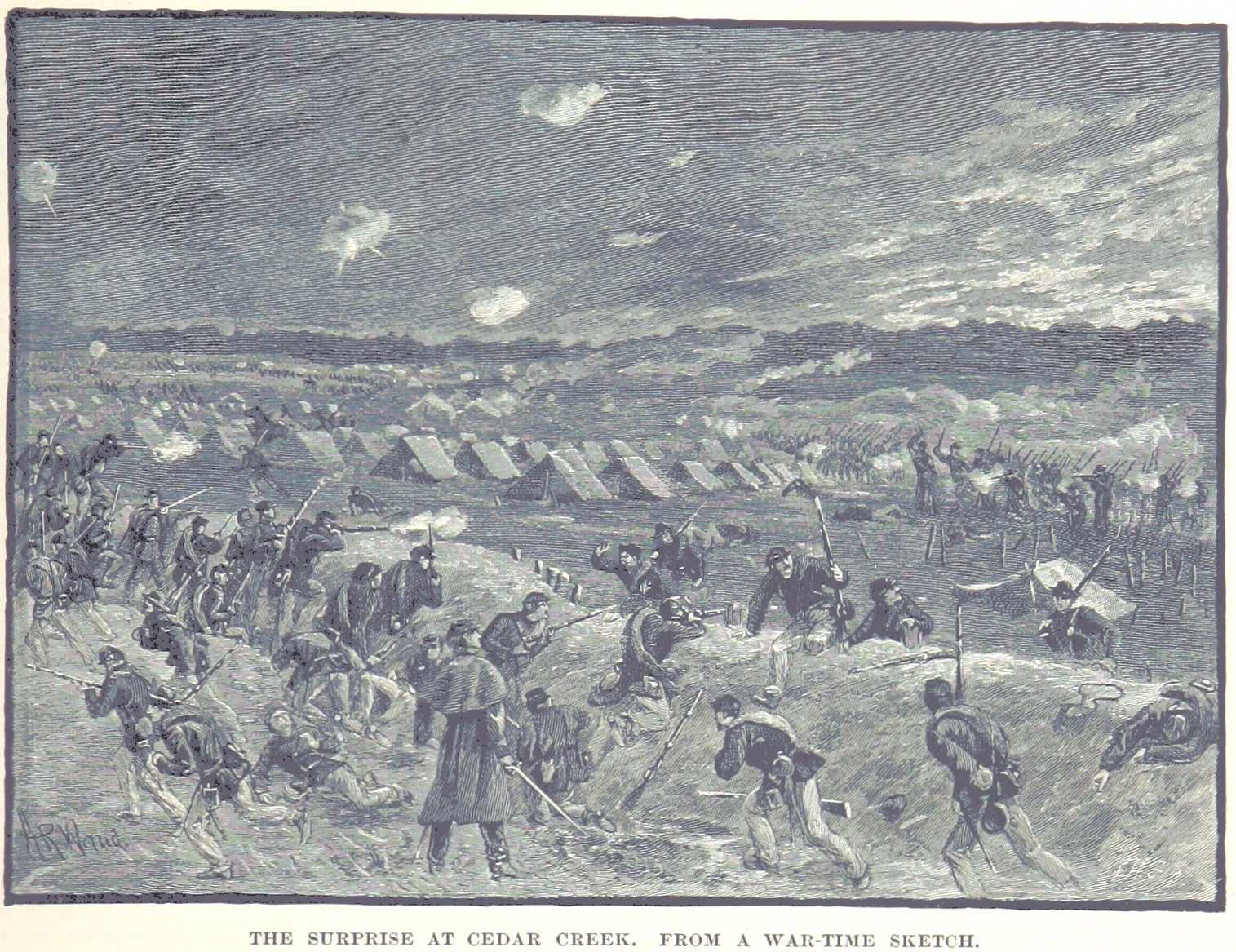 During the Battle of Cedar Creek, Confederate troops attack the rear of the Union XIX Corps. Note below the caption: "The right of the picture shows the Confederate flanking column attacking the left of the Nineteenth Corps from the rear. The Union troops, after a determined resistance, took position on the outer side of their rifle-pits."